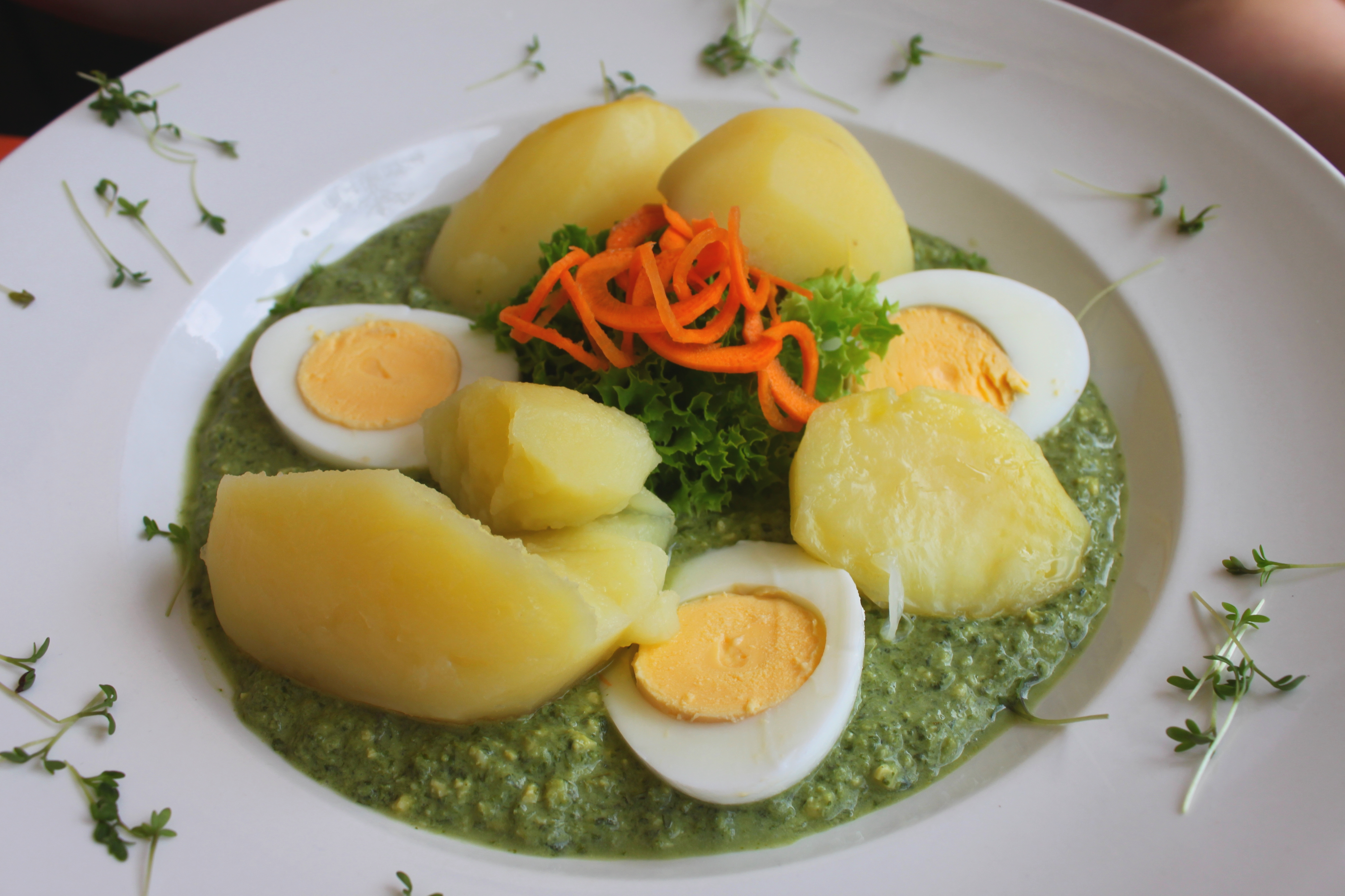 Frankfurt green sauce with half boiled eggs and potatoes. Photographed in Frankfurter Haus in Neu-Isenburg